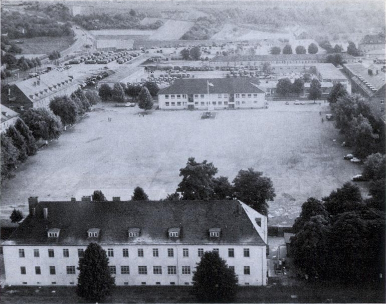 US Wharton Barracks in Heilbronn